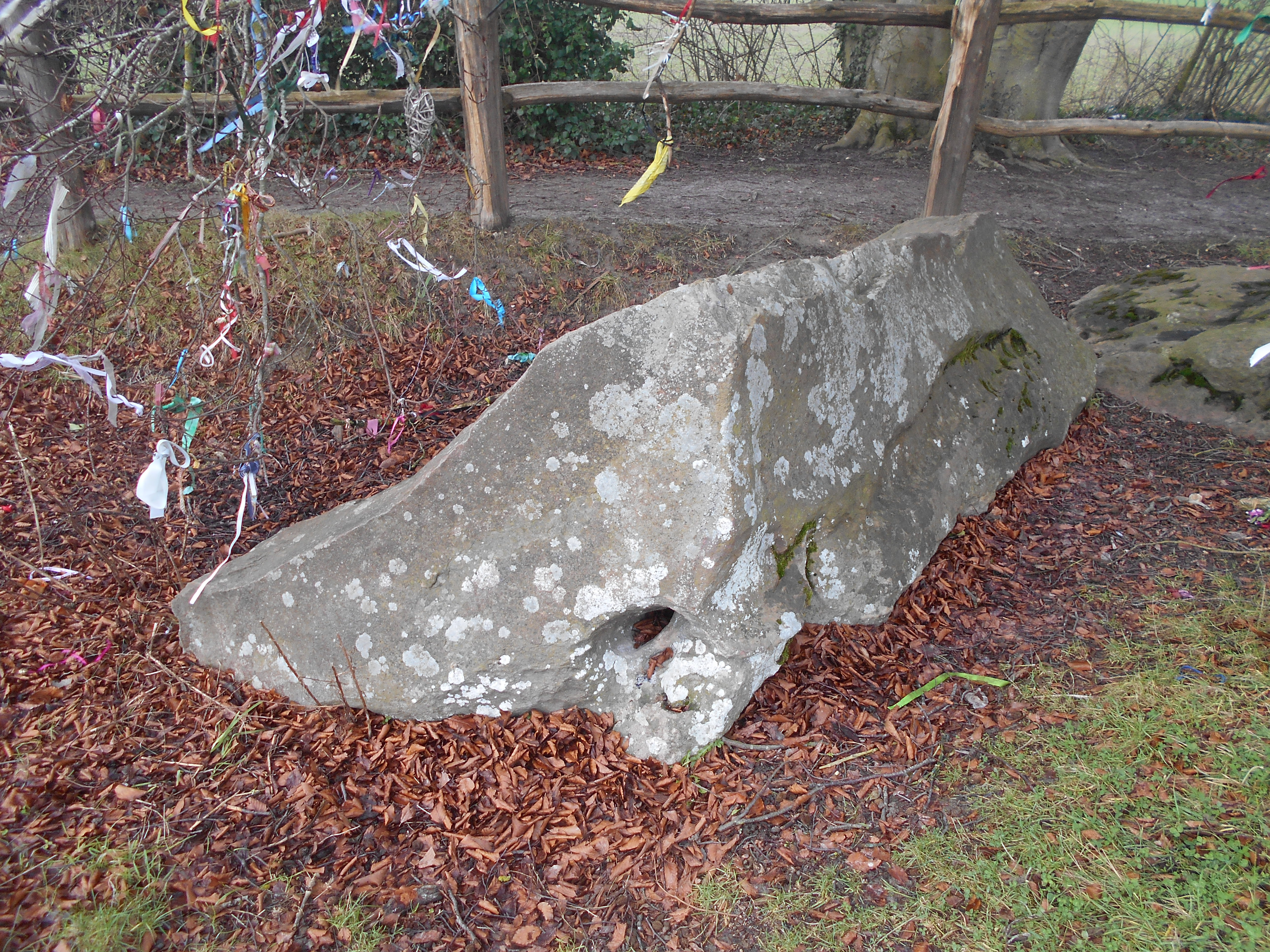 Coldrum Long Barrow, near Trottiscliffe, Kent.